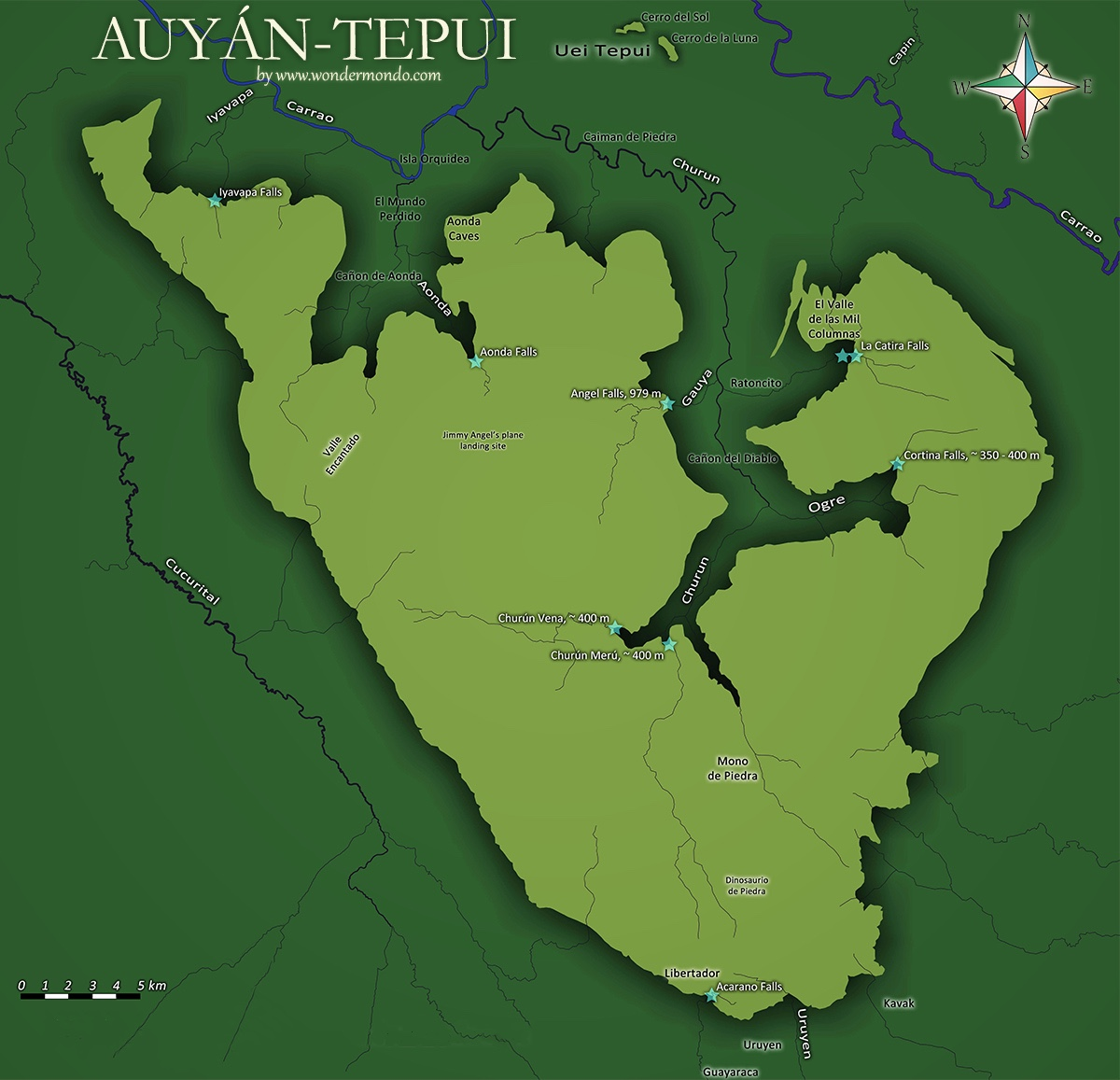 Overview map of Auyán-tepui with most notable landmarks marked on the map